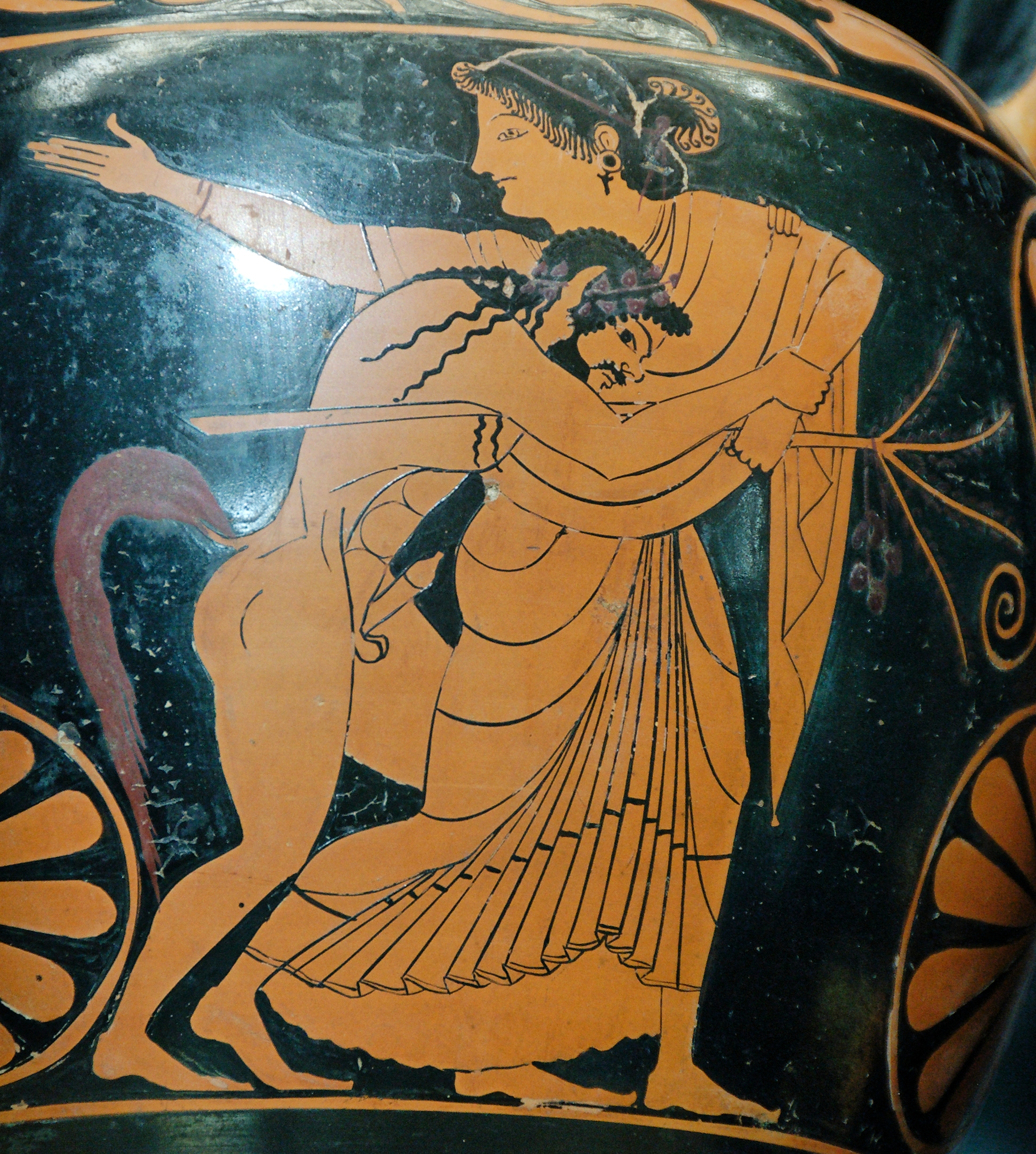 Maenad and silenus. Side A from an Attic red-figure Nikosthenic amphora, ca. 525–515 BC.